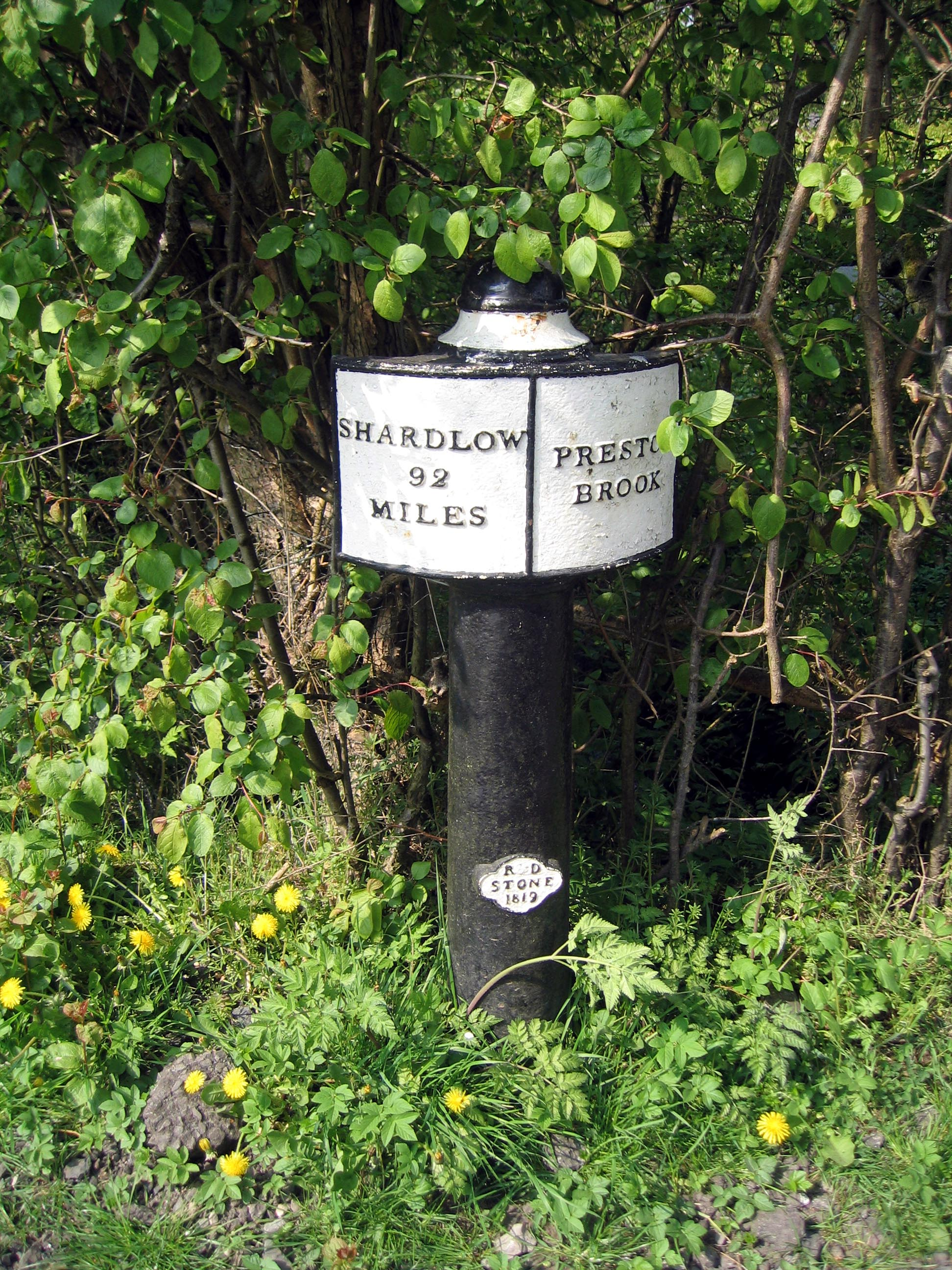 Mile post, Trent and Mersey canal, Preston Brook, Cheshire.